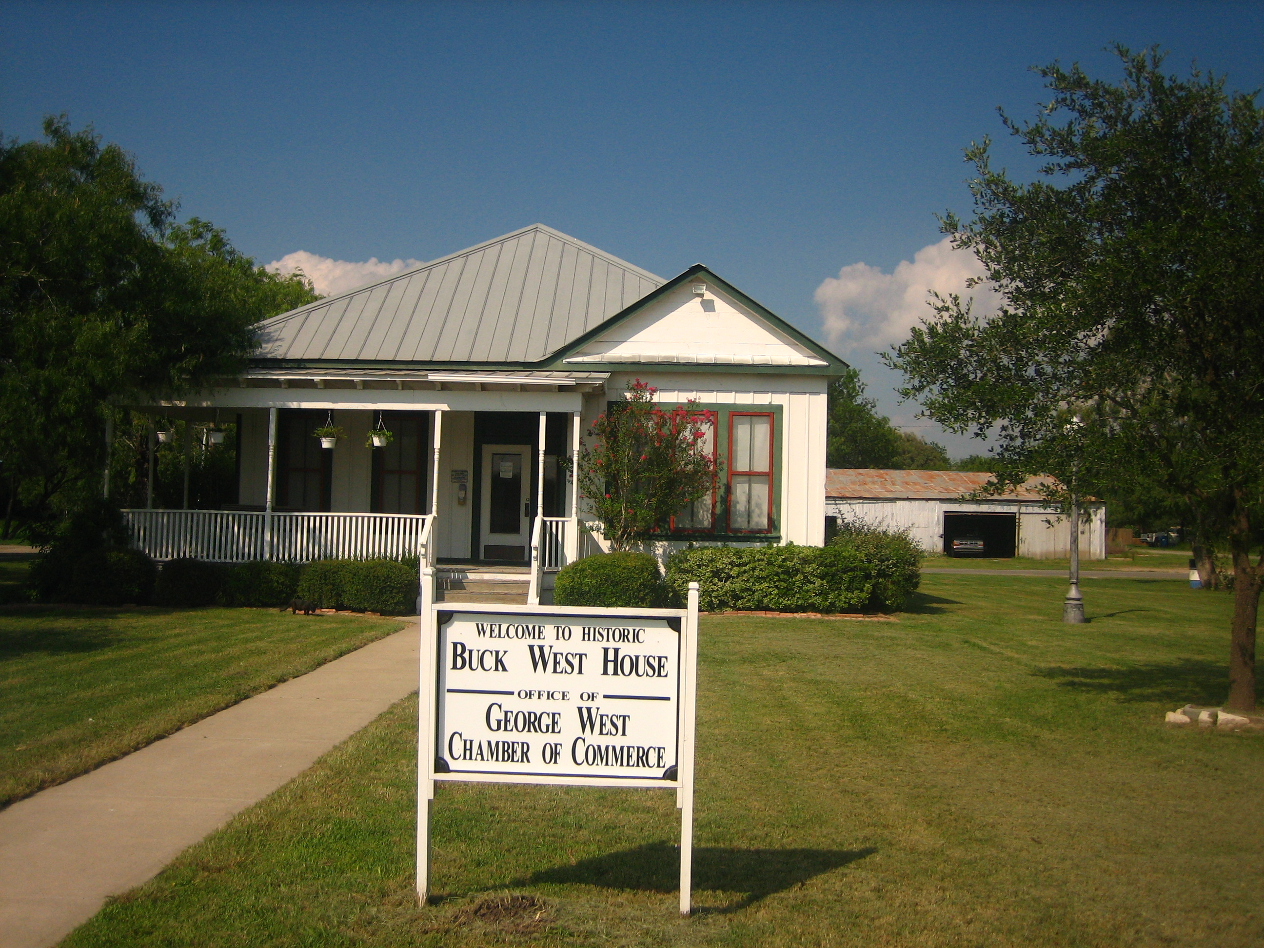 Buck West House, now the offices of the George West, Texas Chamber of Commerce